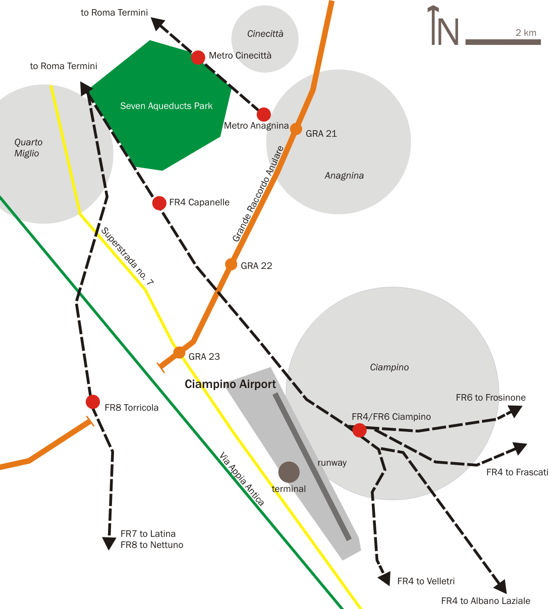 Location map of Ciampino Airport, with some major roads and public transport.